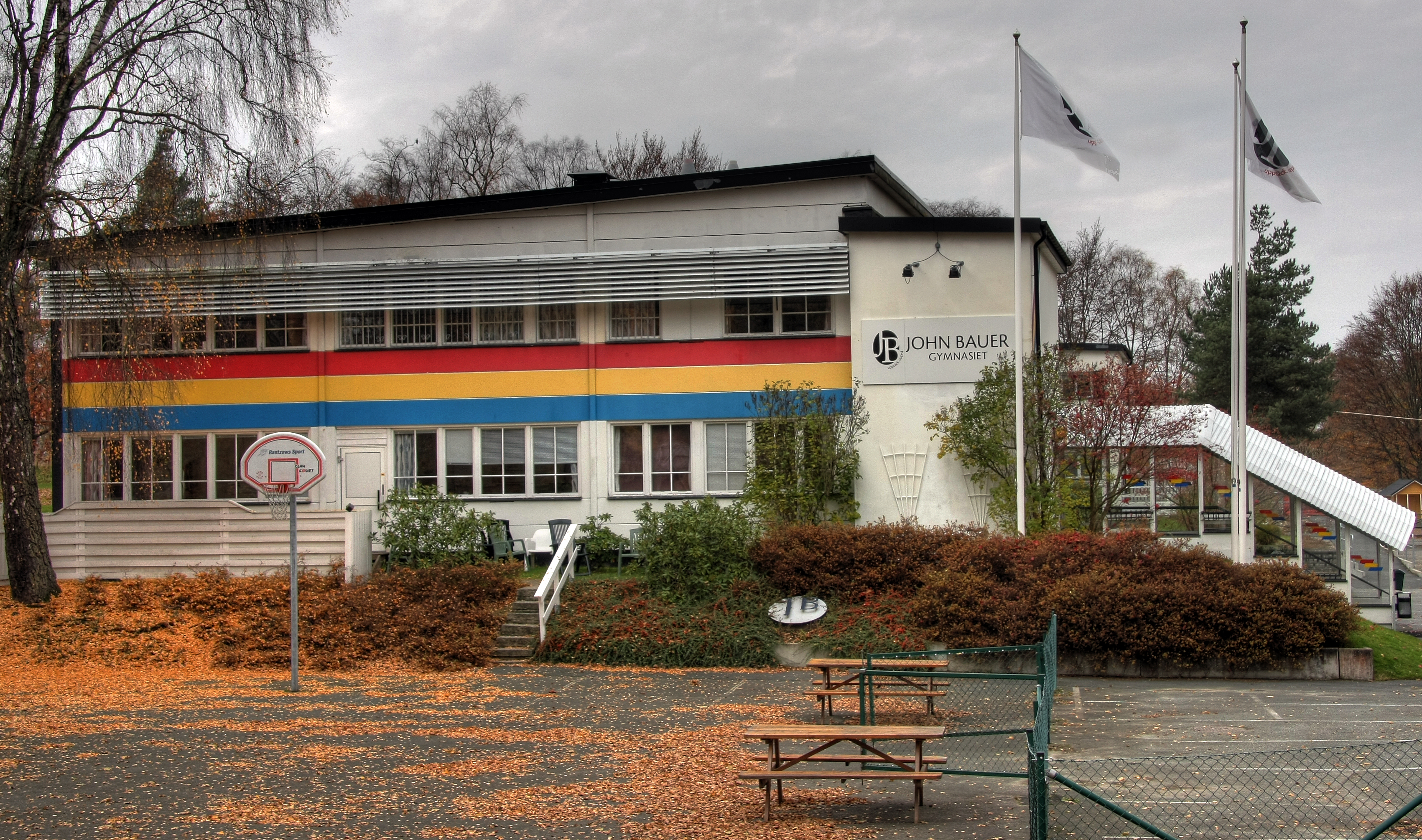 John Bauer Gymnasium (school) in Hässleholm, Sweden